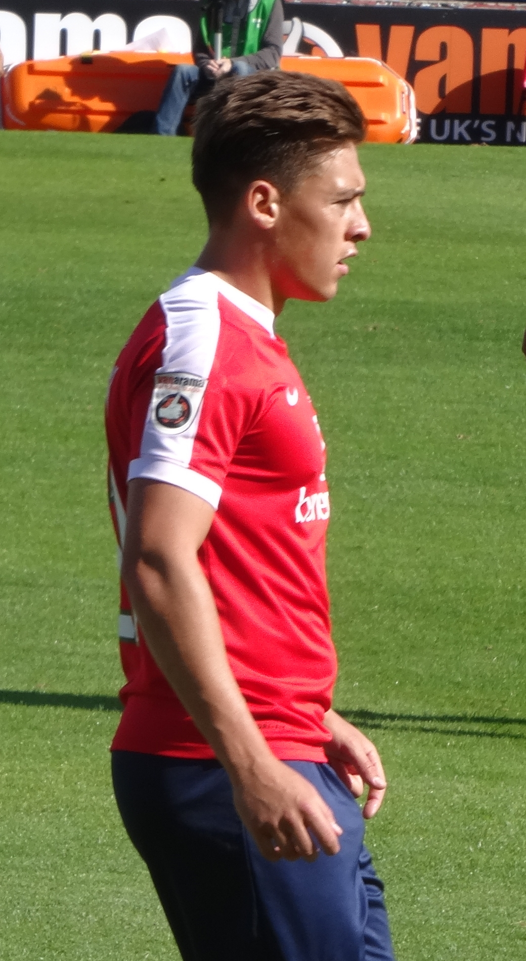 Scott Fenwick playing for York City against Boreham Wood at Bootham Crescent, York on 13 August 2016